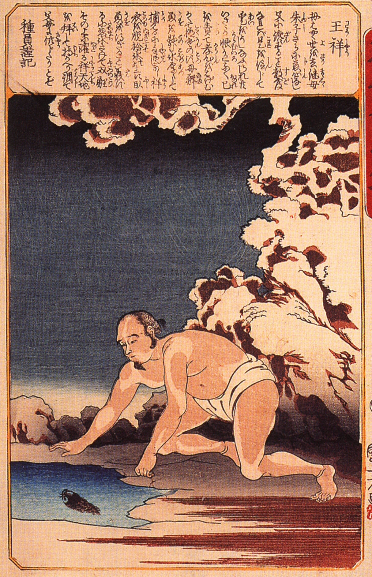 Ōshō was an official. When his stepmother craves for fish in the mid-winter, Ōshō takes off his clothes and go to the frozen river, when the ice mealts for the heat of his body, a carp leaps to his hands. Chūban format, tate-e (portrait)